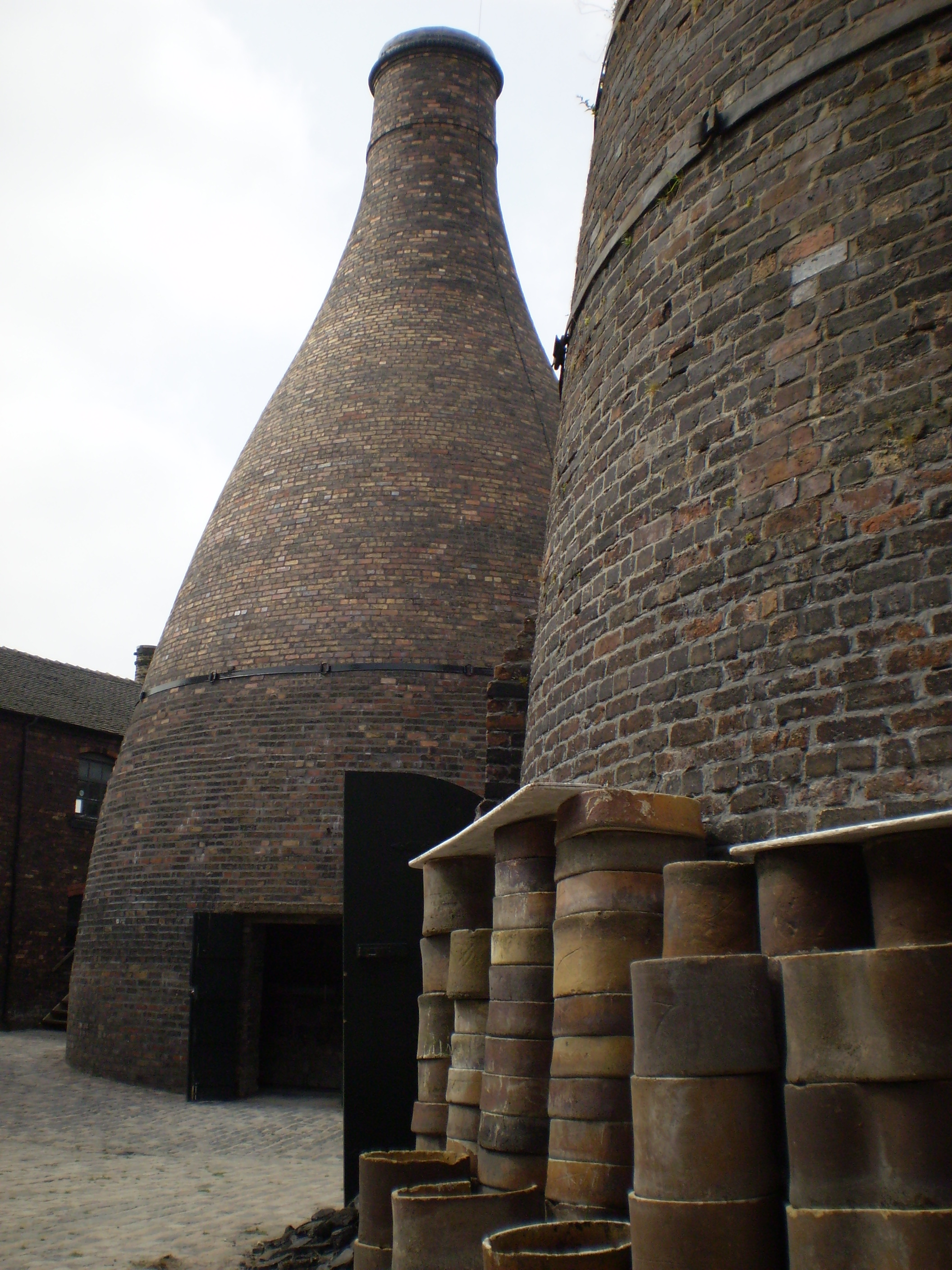 A bottle kiln at Gladstone Pottery Museum